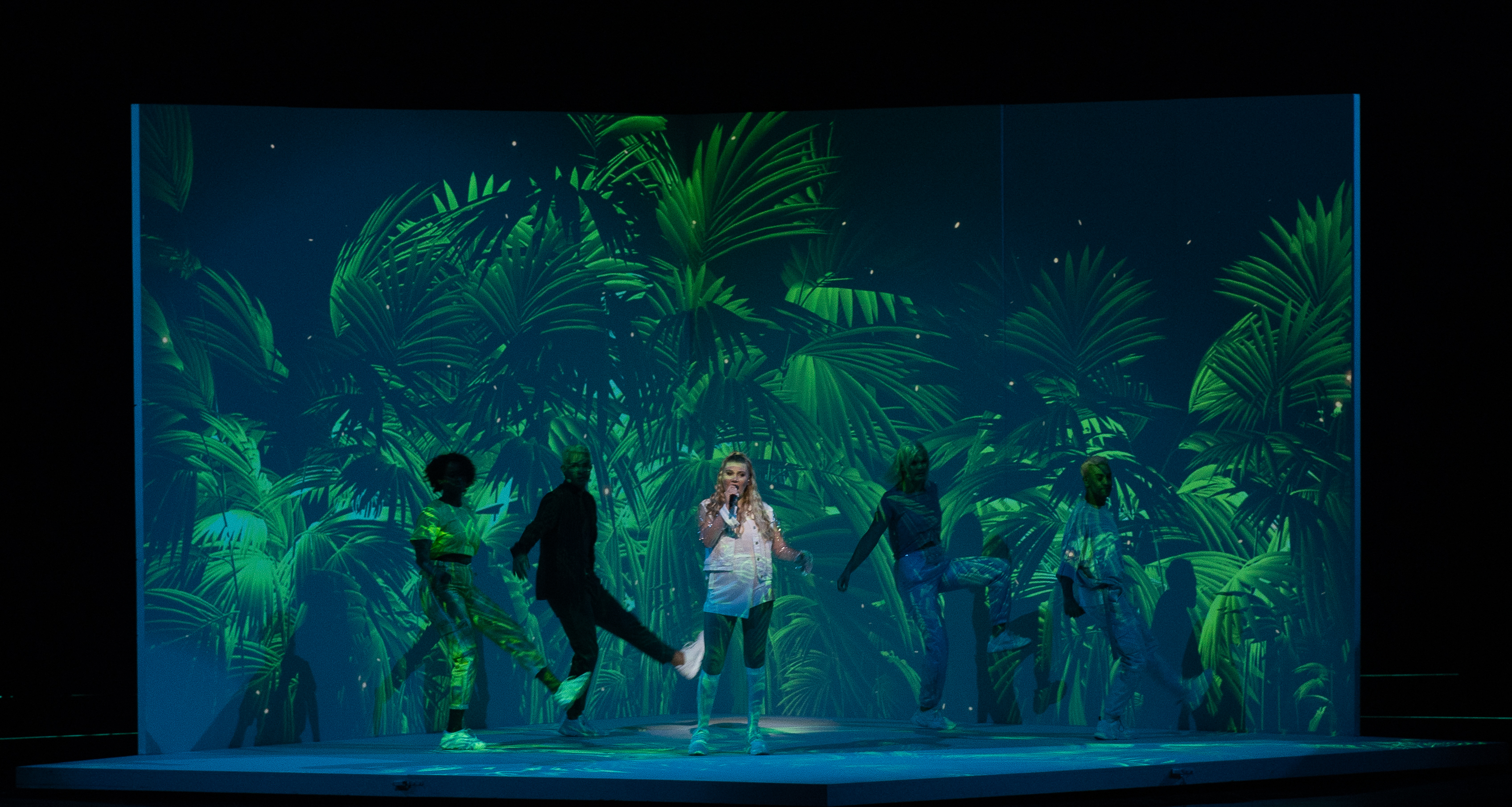 Michela representing Malta with the song "Chameleon" during a rehearsal before the second semi-final of the Eurovision Song Contest 2019 in Tel-Aviv.